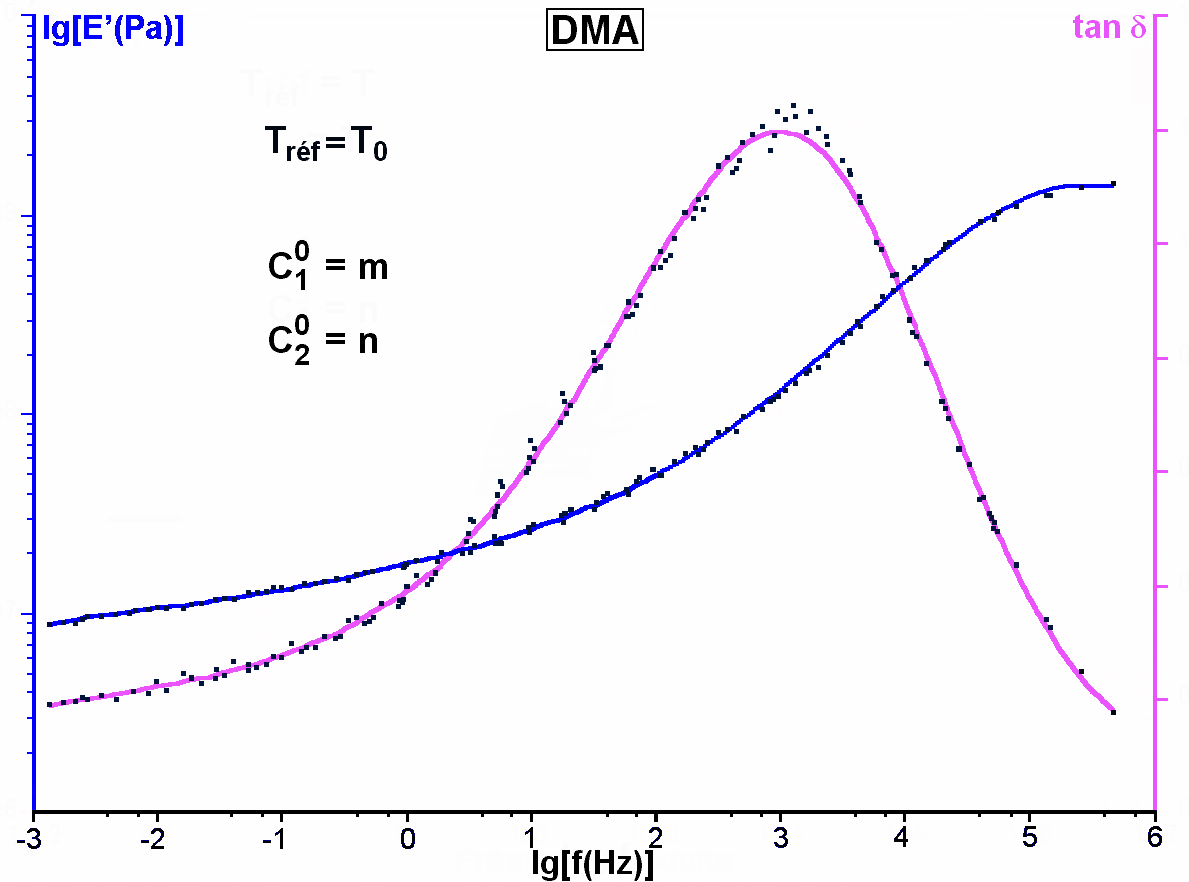 DMA - Storage modulus E' and loss factor master curves generated by software on a polymer material using a reference temperature T0. These curves were produced by horizontally shifting the modulus and loss factor data along the frequency axis (log scale; f in Hz). Application of the time–temperature superposition principle. This was done using data obtained from a double frequency/temperature sweep test on a viscoelastic property (for this example storage modulus E' and loss factor tan δ; measured at several frequencies from 1 to 100 Hz).